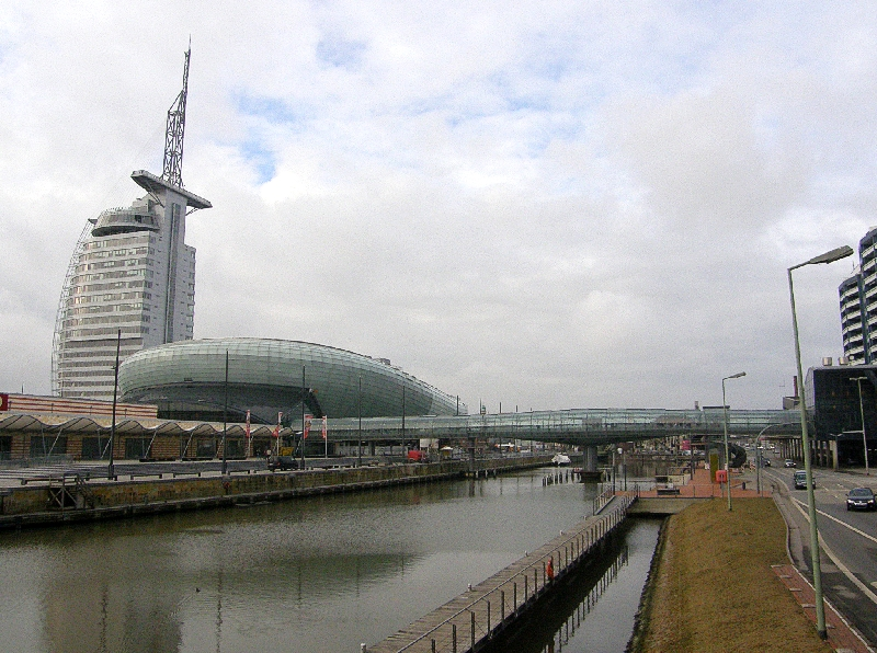 Klimahaus and Hotel in Bremerhaven, Germany